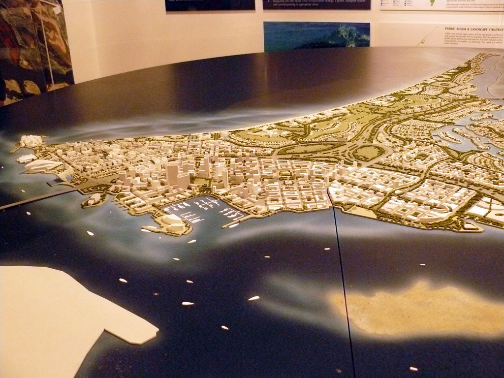 Maquette of Saadiyat Island